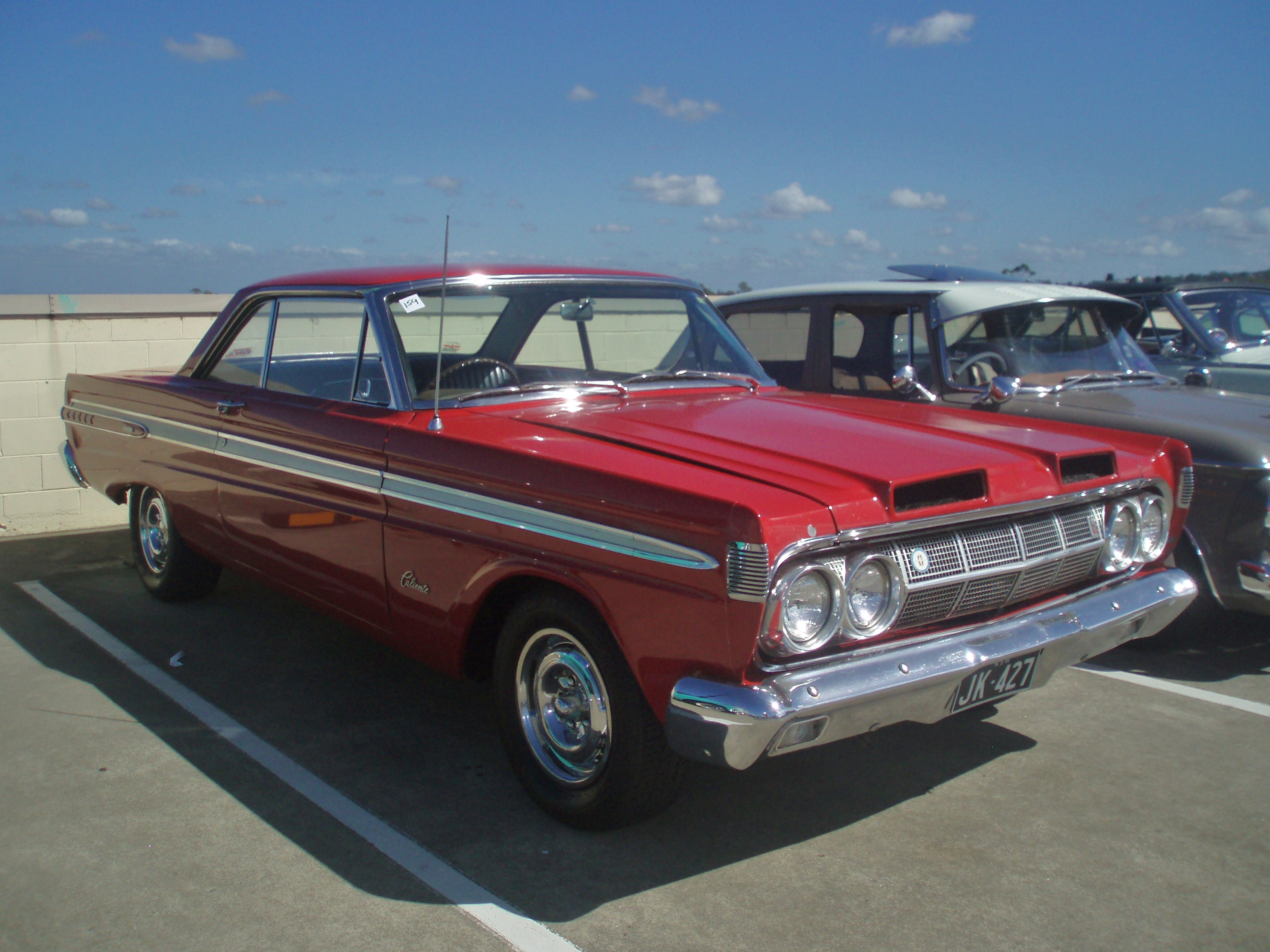 1964 Mercury Comet Caliente coupe. Taken at the 2009 New South Wales All American Day, held at Castle Towers Shopping Centre, Castle Hill, Sydney.